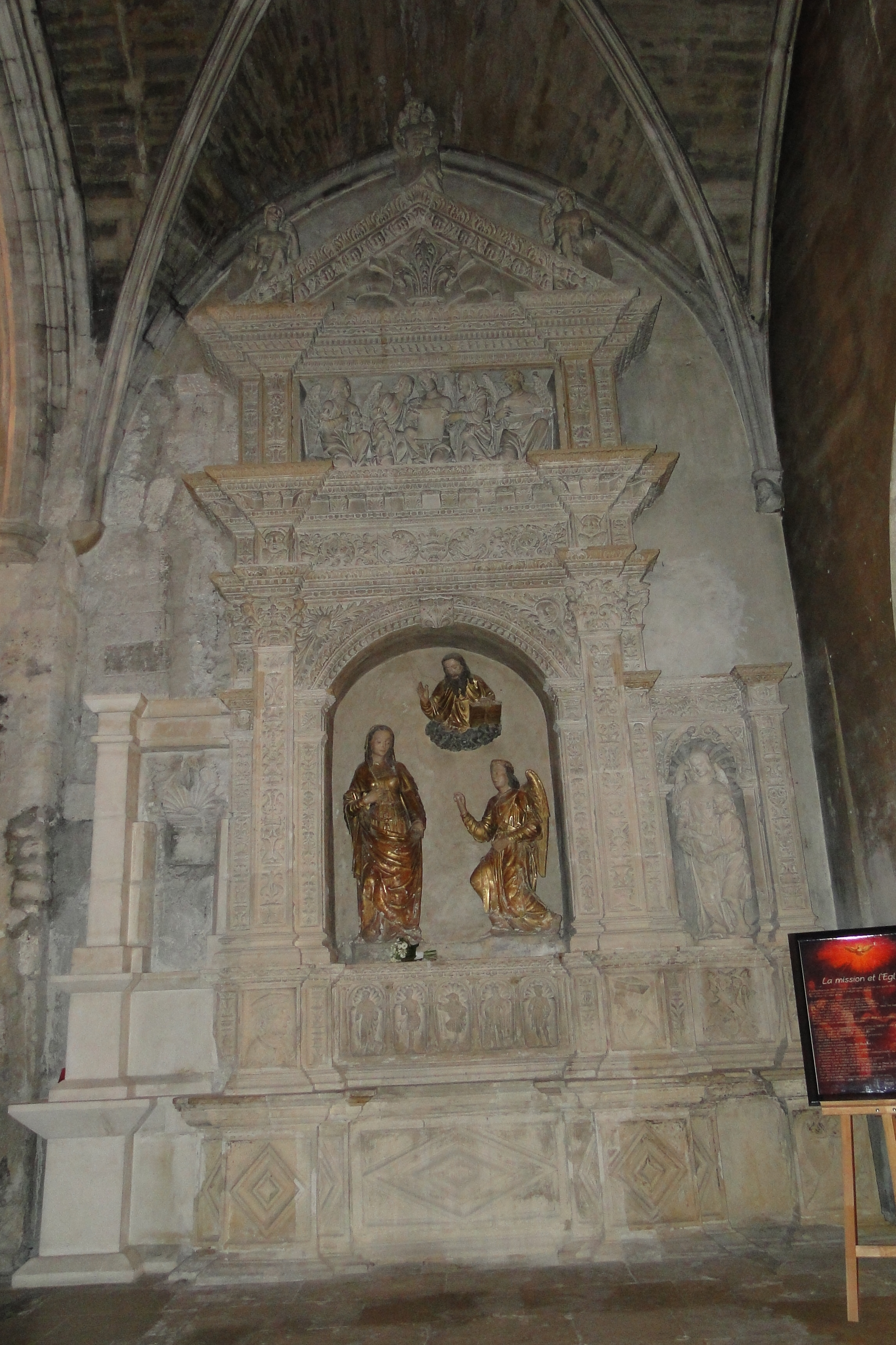 Church of St. Agricole in Avignon (France) - Dossale Doni